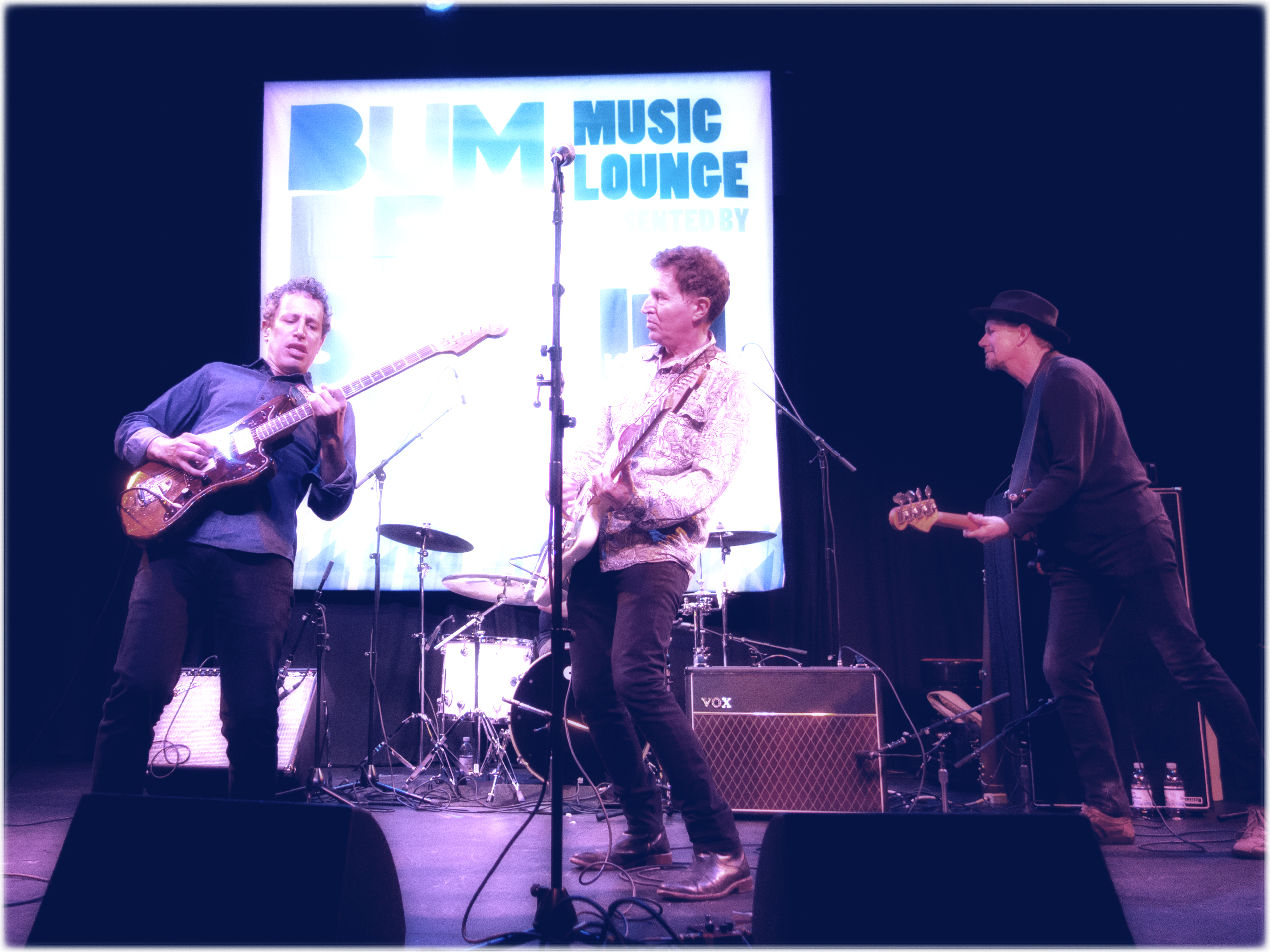 The Dream Syndicate onstage